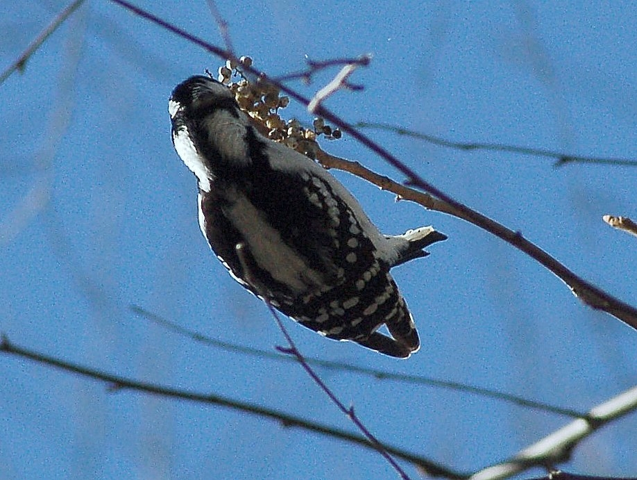 Downy Woodpecker, female